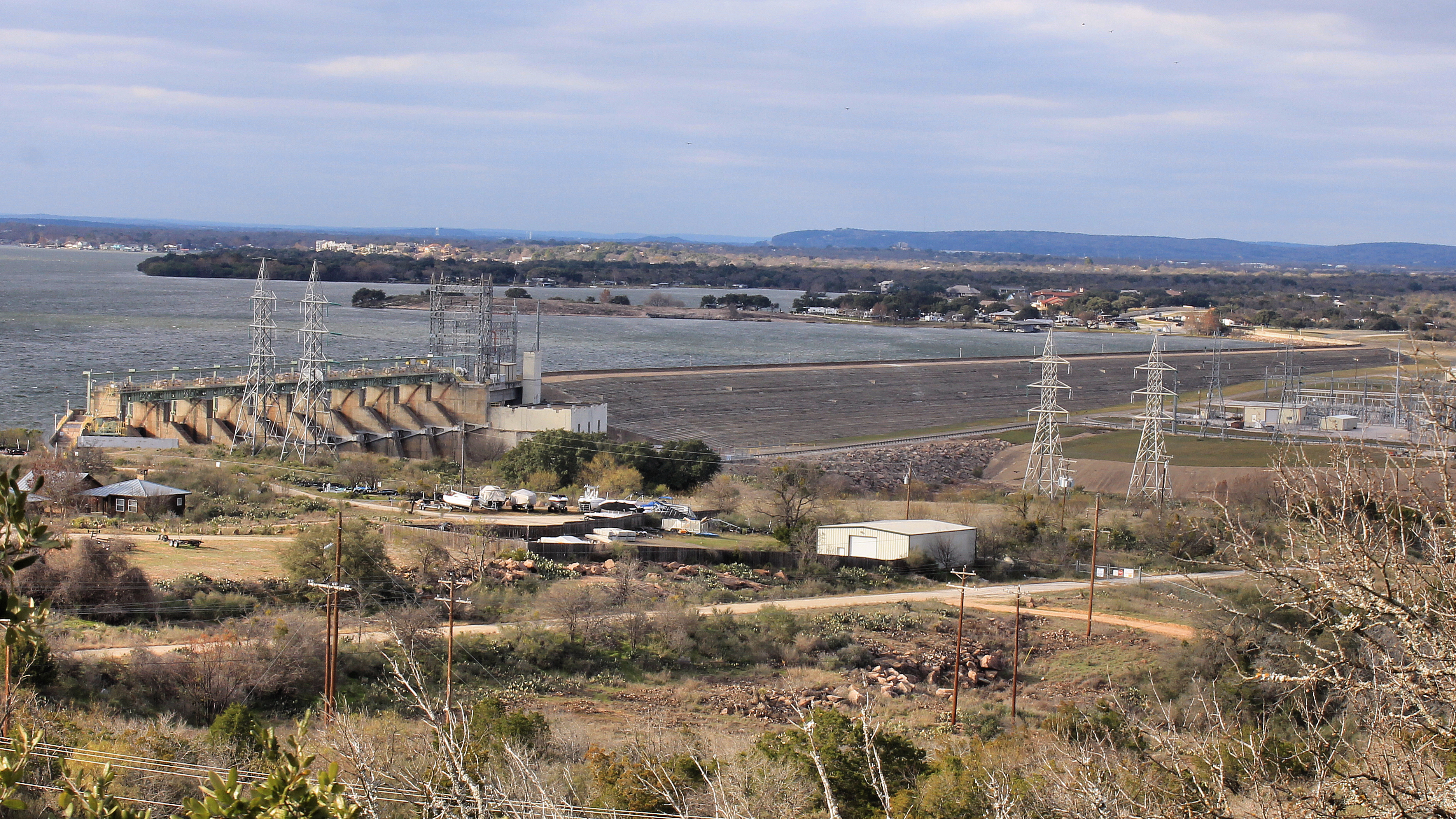 Wirtz Dam on the Colorado River in Burnet County, Texas, United States was built between 1949 and 1951 and impounds Lake Lyndon B. Johnson.